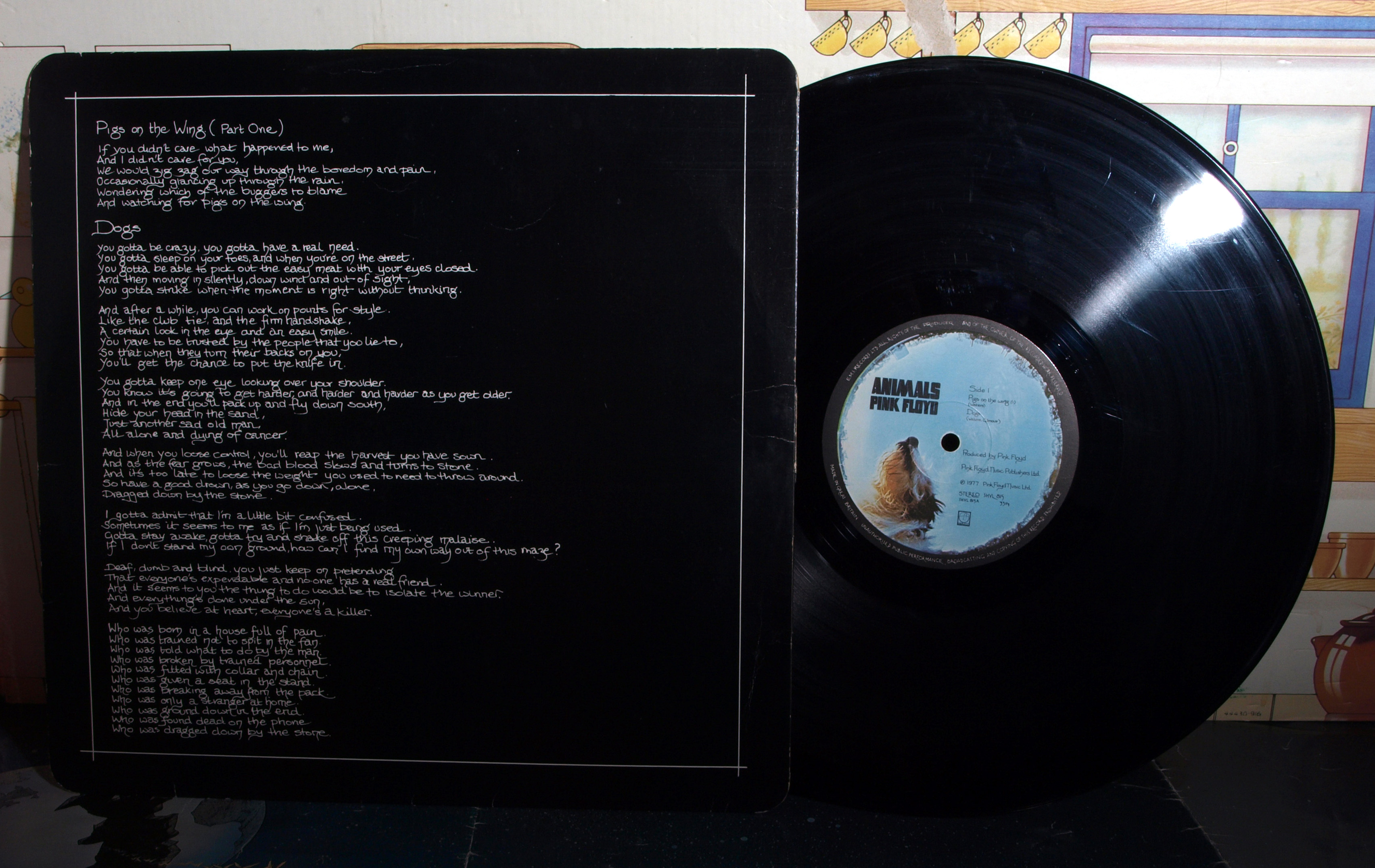 pink floyd, animals,..